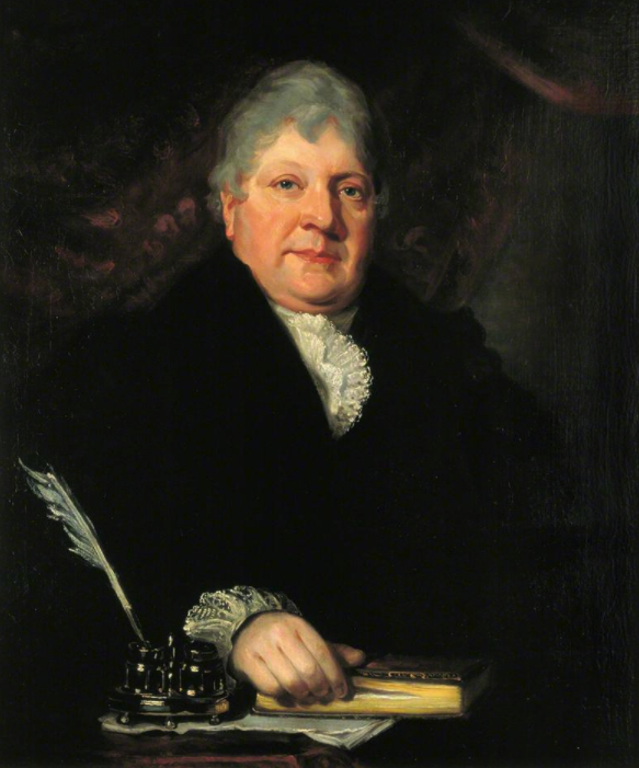 Portrait of man standing by desk with quill pen